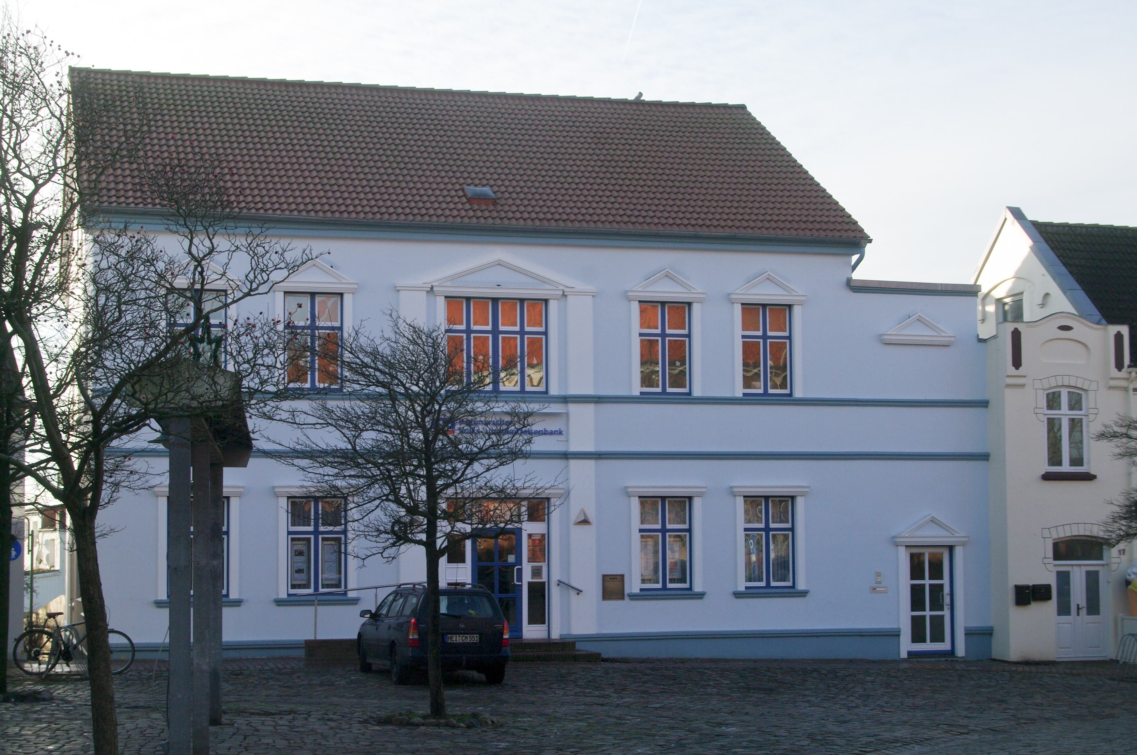 Dithmarschen in winter